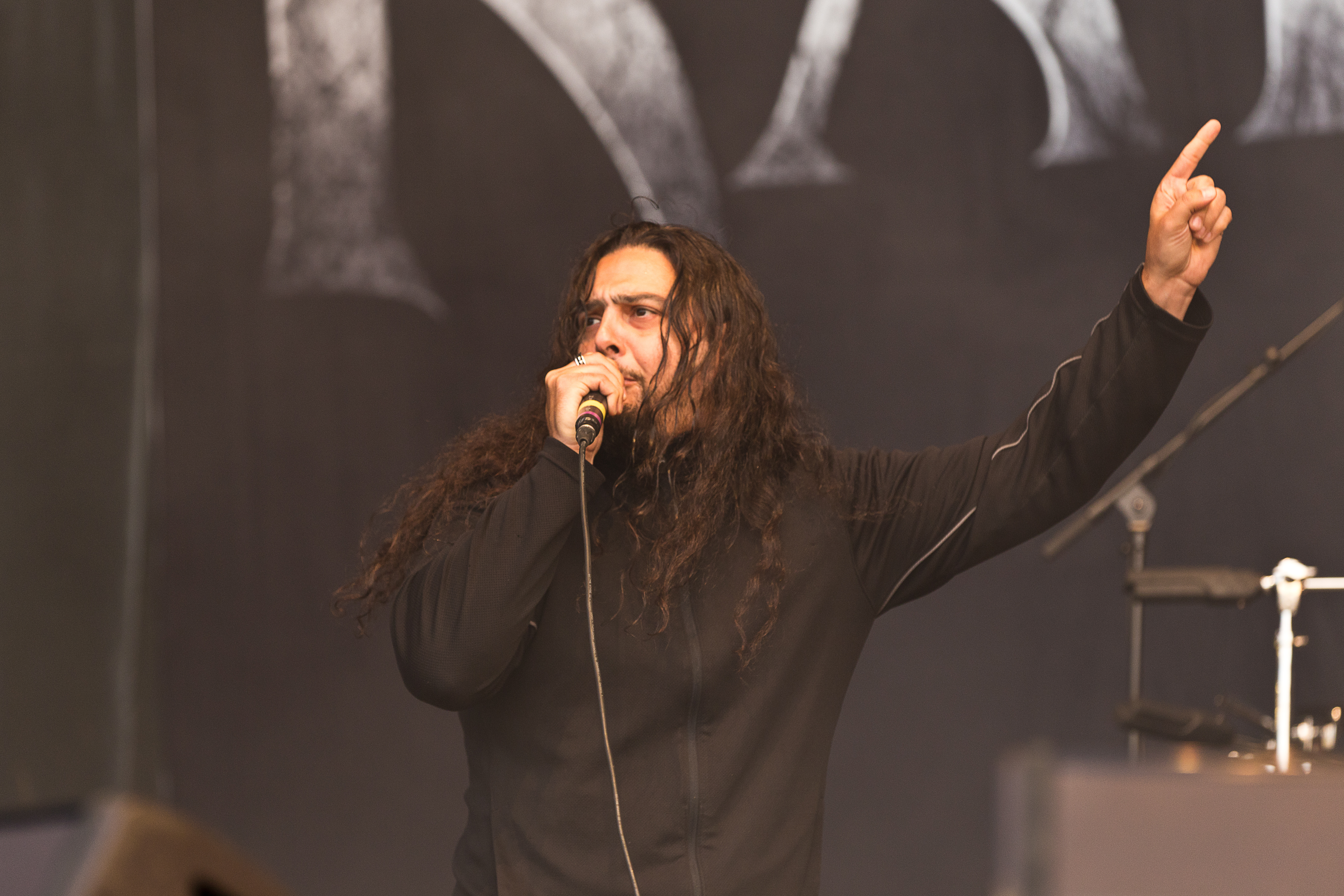 The Canadian death metal band Kataklysm at the Rockharz Open Air 2015 in Ballenstedt/Germany.